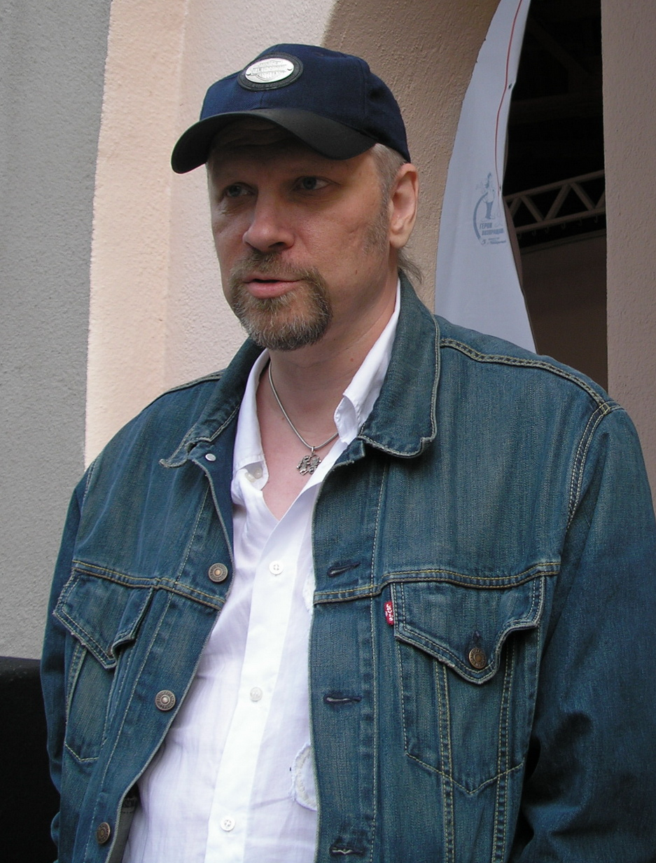 The Russian director of animated films and art director Aleksey Kotyonochkin (or Alexei Kotyonochkin/Kotenochkin, Алексей Котёночкин) at a press conference at Moscow Zoo on the upcoming premiere of the 19th and 20th episode of the animated series Nu, pogodi! Their production was funded by the discount grocery store chain Pyaterochka. Kotyonochkin directed both episodes and is the son of Vyacheslav Kotyonochkin, director of episodes 1 to 18 of Nu, pogodi!